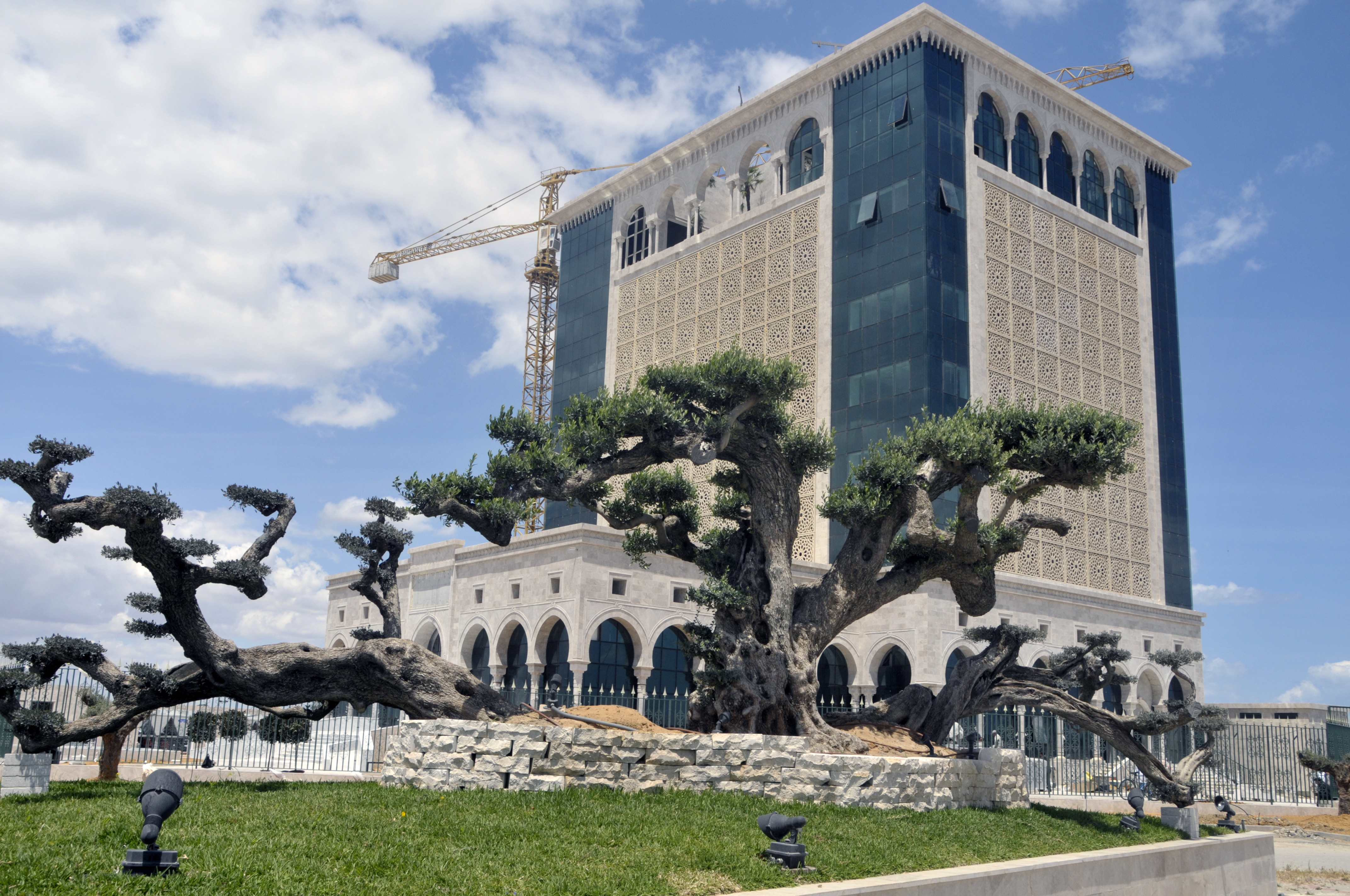 Zitouna Bank headquarters